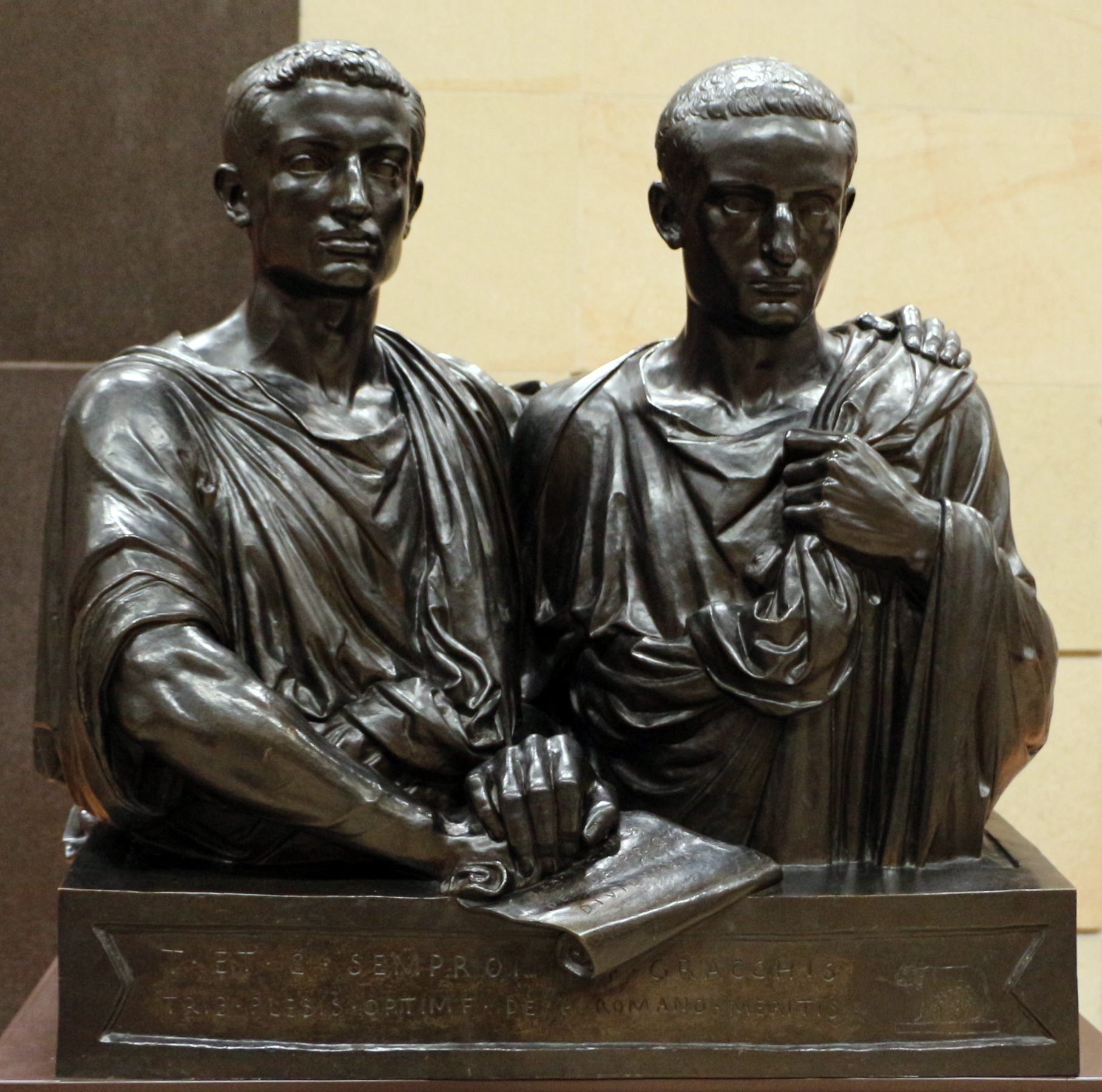 Sculptures in the Musée d'Orsay